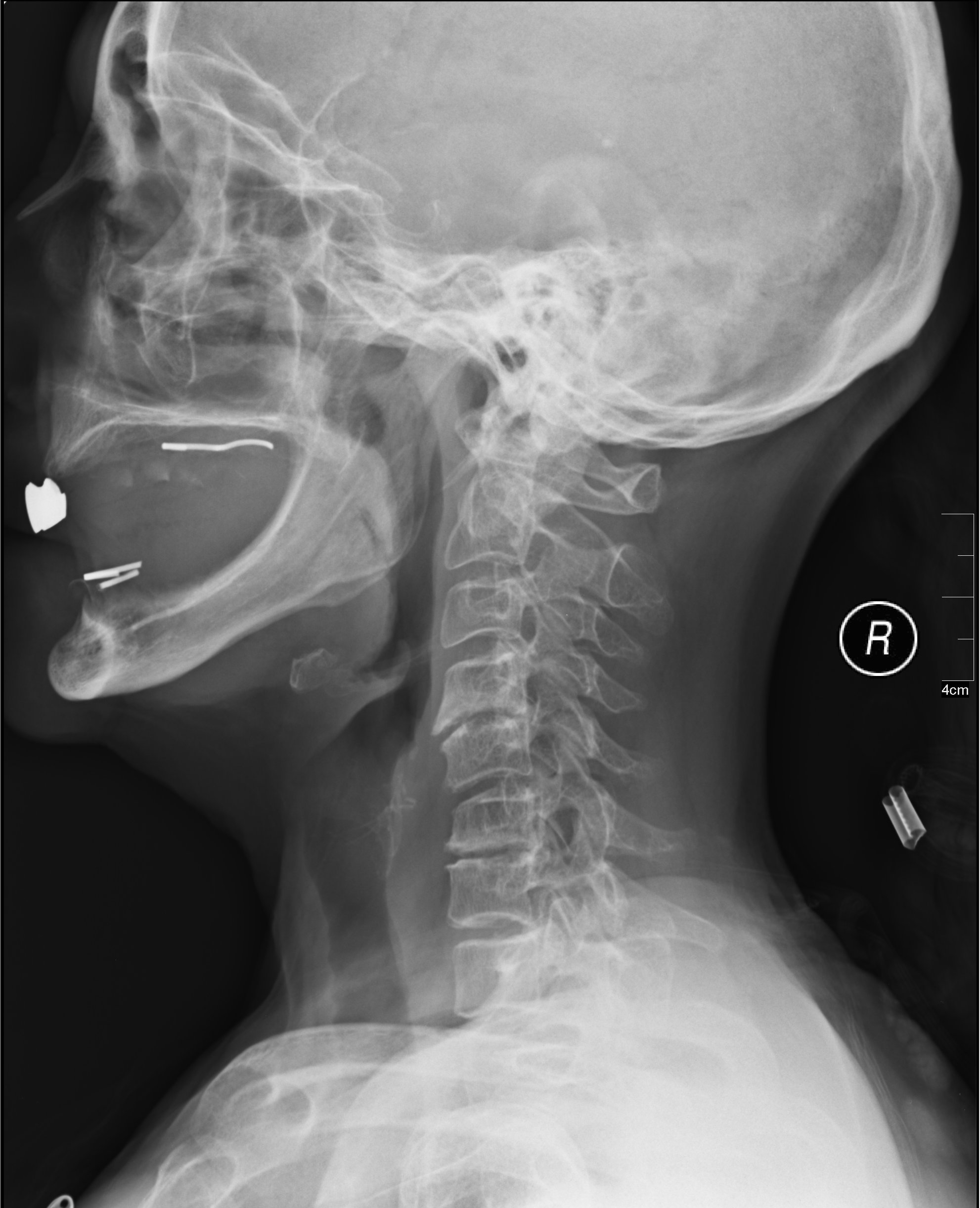 Medical X-rays. Image not to scale